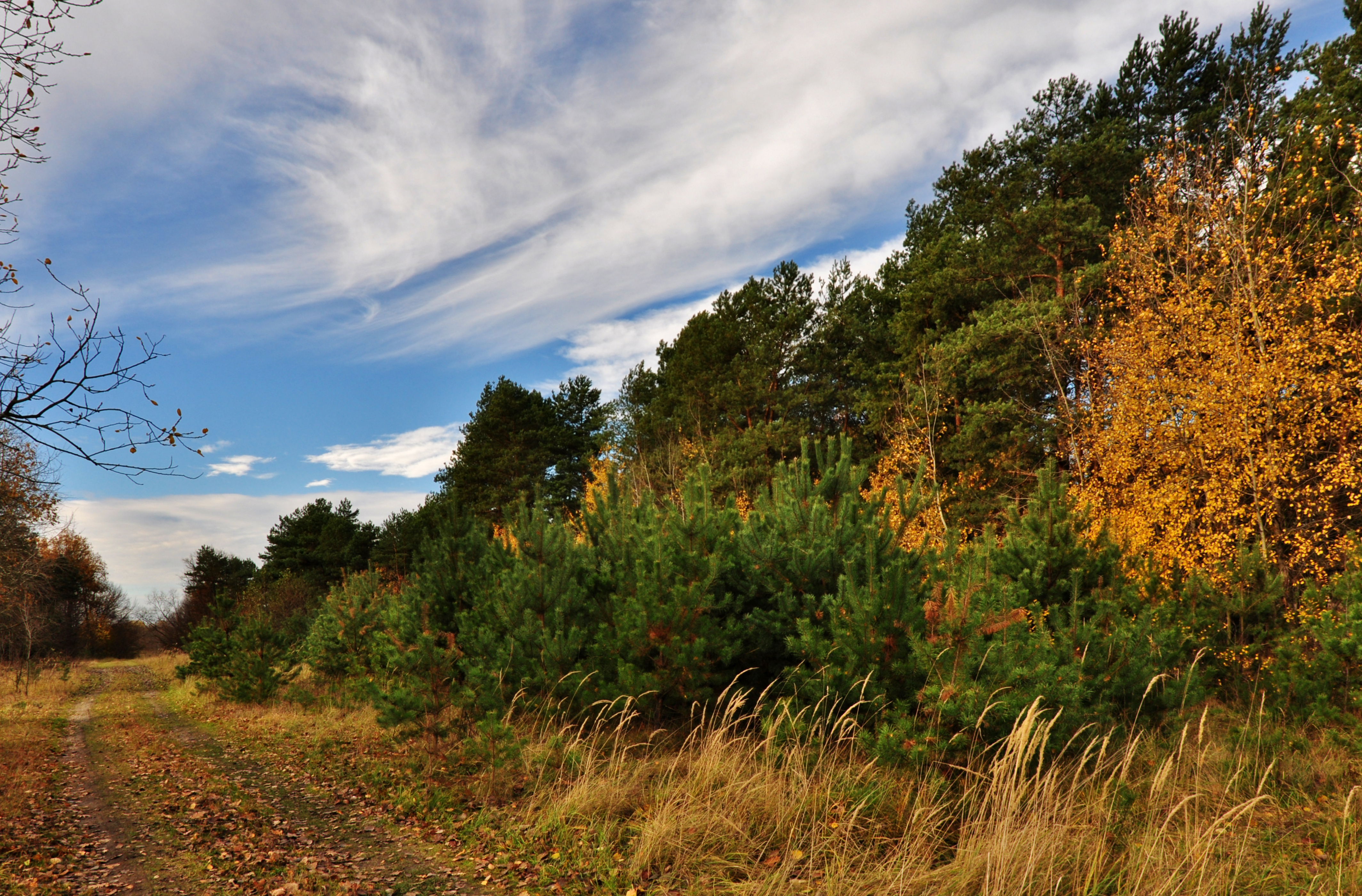 Windbreak between villages Stryhanka and Tyshycia in Kamianka-Buzka Raion, Lviv Oblast